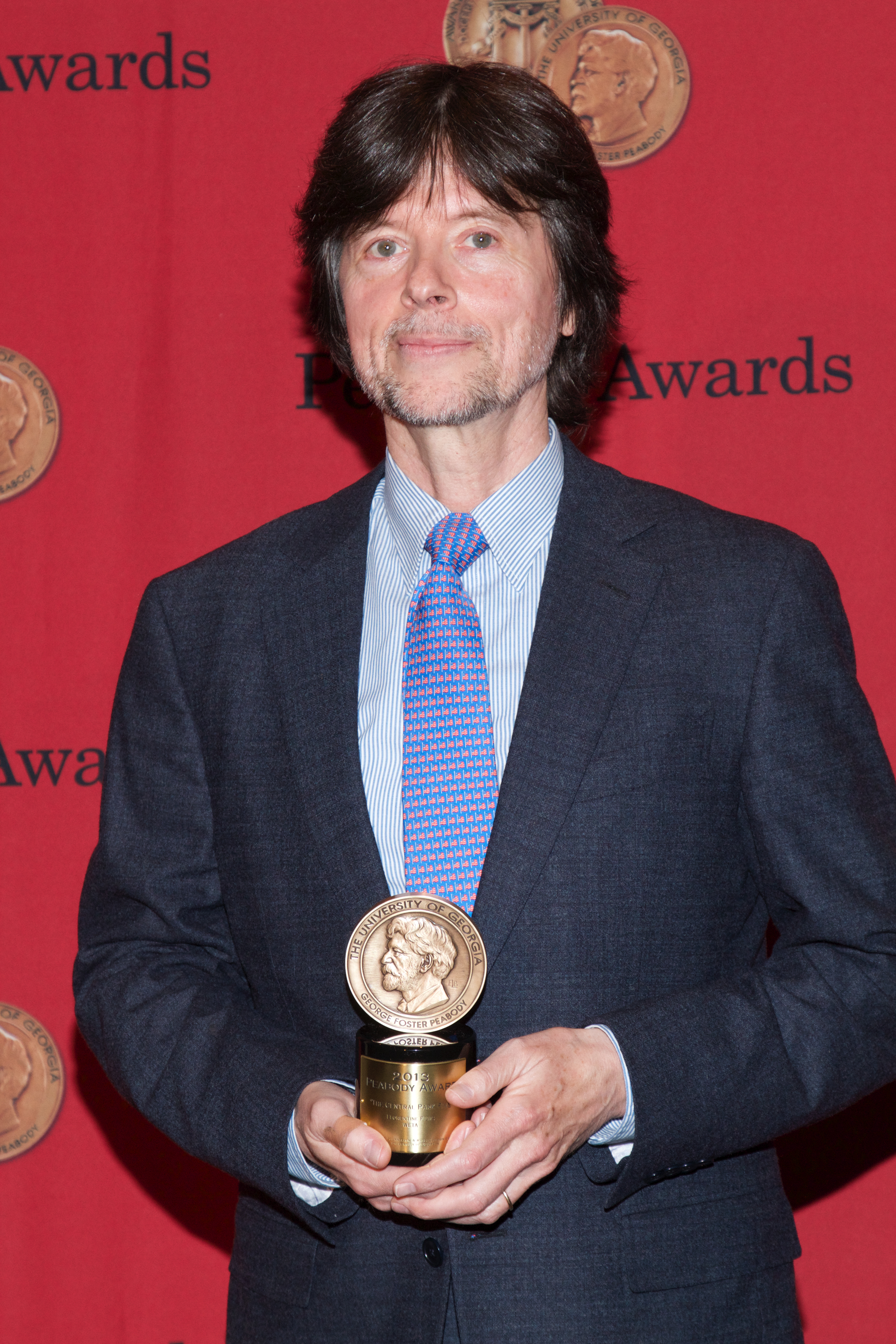 Ken Burns holds his Peabody Award for his documentary "The Central Park Five"